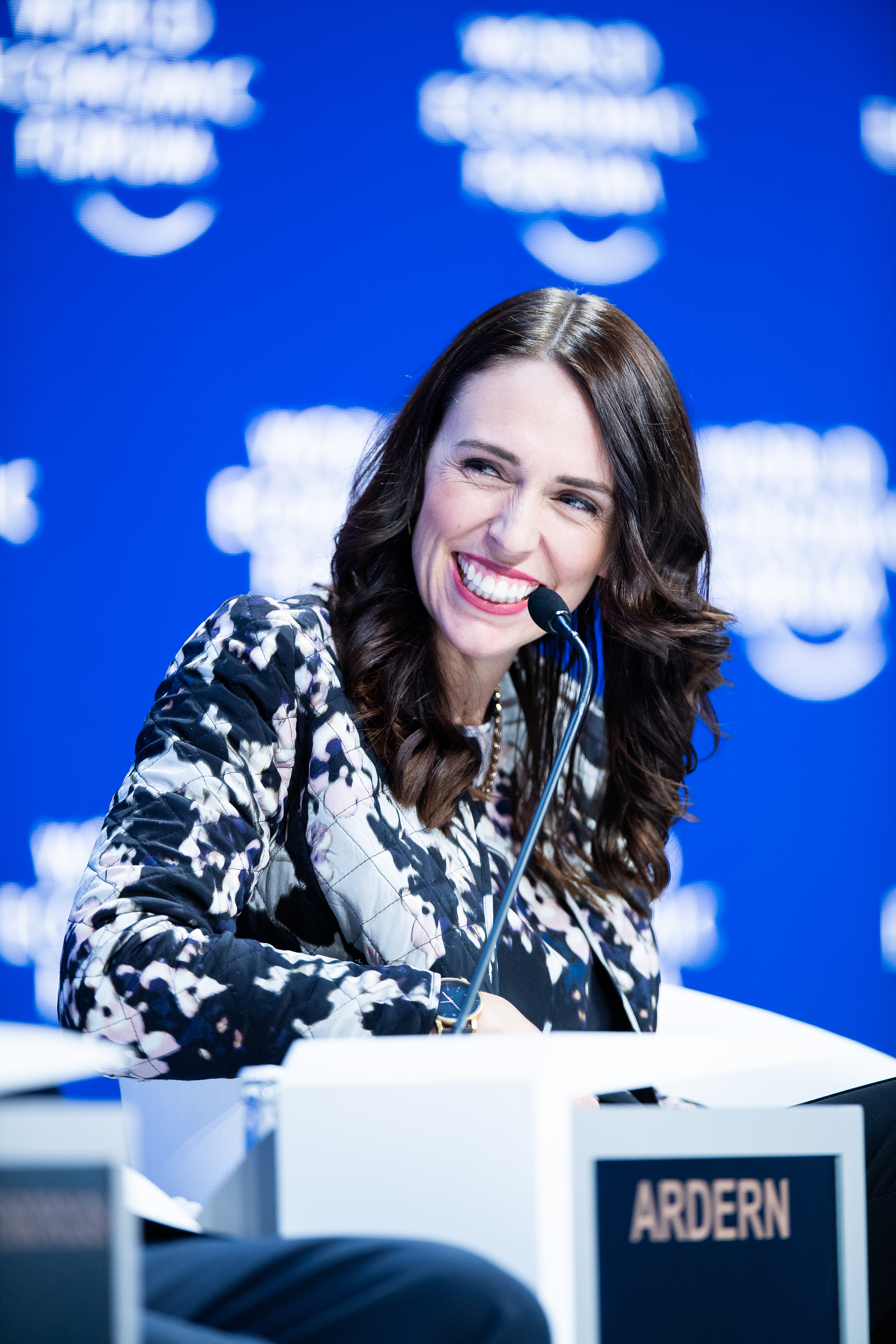 Jacinda Ardern, Prime Minister of New Zealand; Young Global Leader speaking during the Session "Safeguarding Our Planet" at the Annual Meeting 2019 of the World Economic Forum in Davos, January 22, 2019. Congress Centre, Congress Hall Copyright by World Economic Forum / Boris Baldinger